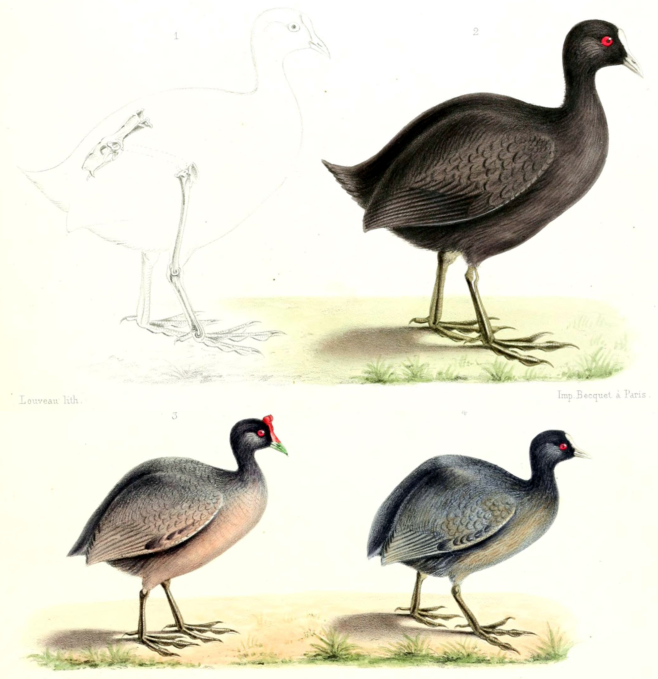 Restoration of a Mascarene Coot, compared with a Red-knobbed Coot and an Eurasian Coot, in Recherches sur la faune ornithologique éteinte des iles Mascareignes et de Madagascar, Alphonse Milne-Edwards